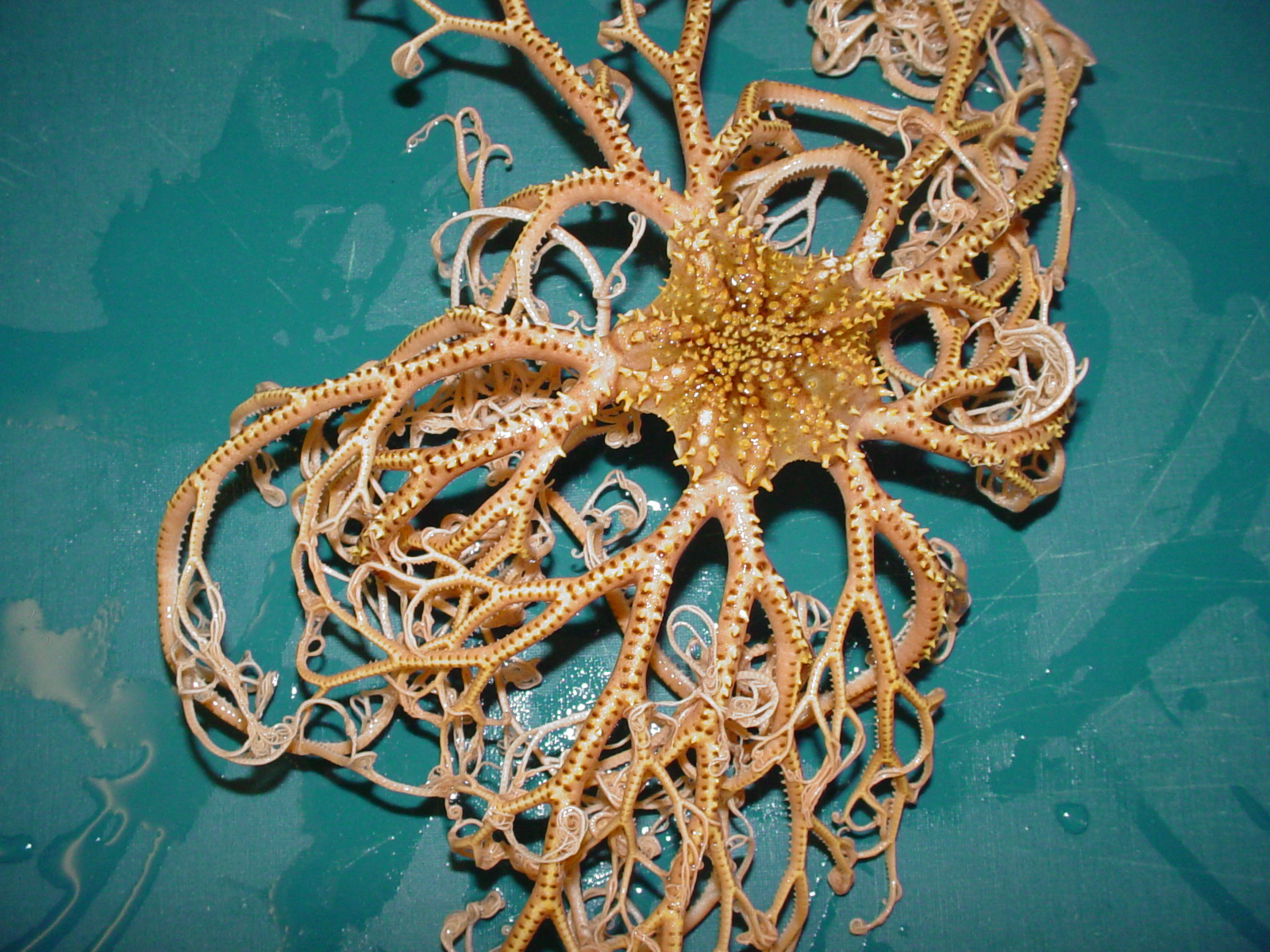 Charleston Bump Expedition Marine Organisms. Basket star.